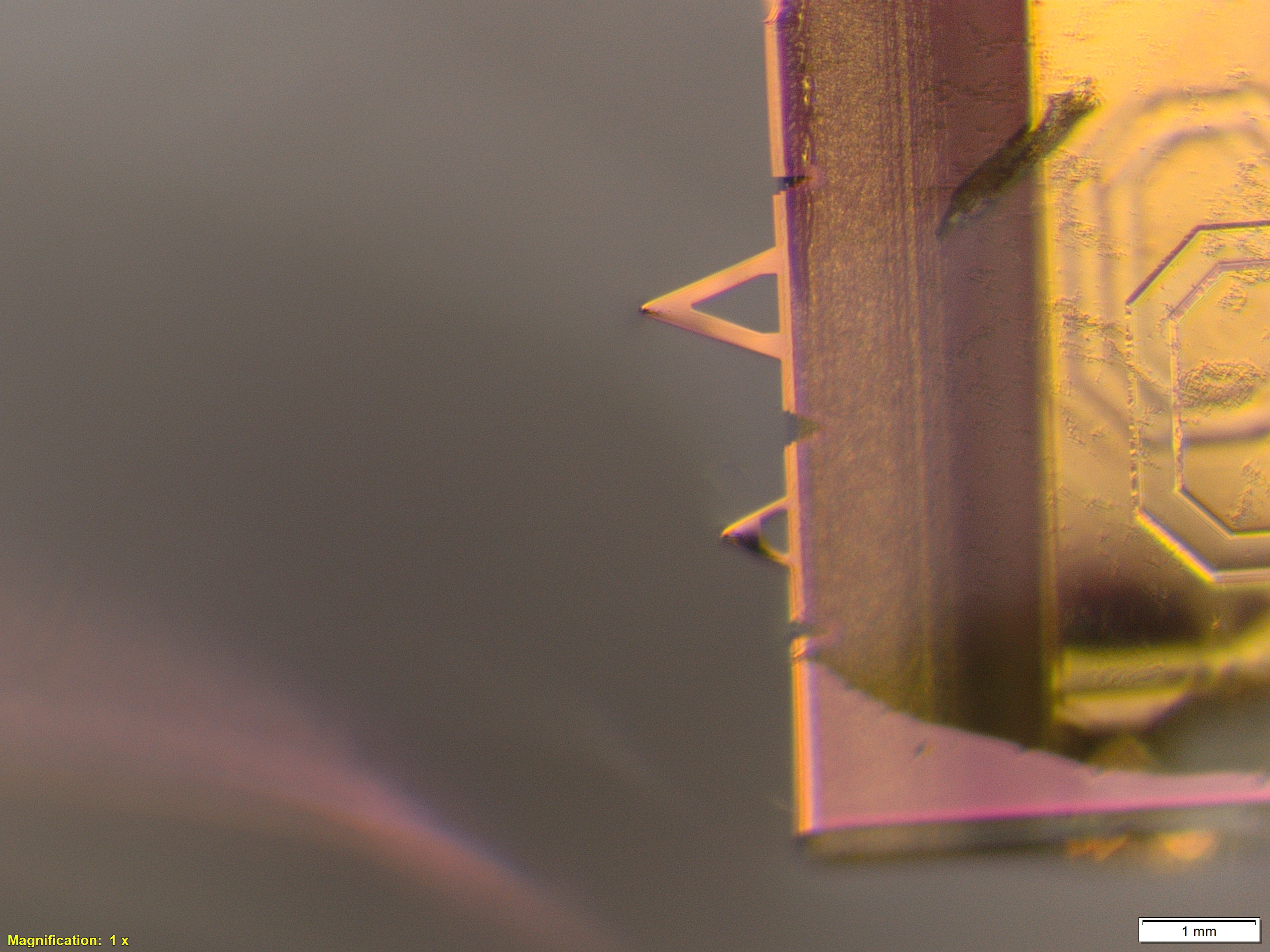 The cantilever of Atom Force microscope (AFM) is always necessary for force measurements between different substances. The photo is made with stereo microscope just before the start of experiment with AFM to see if both tips are still there, as they have tendency to break off very easily.